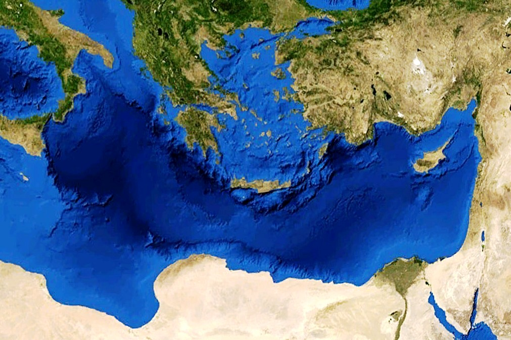 Mediterranean Sea, oriental basin